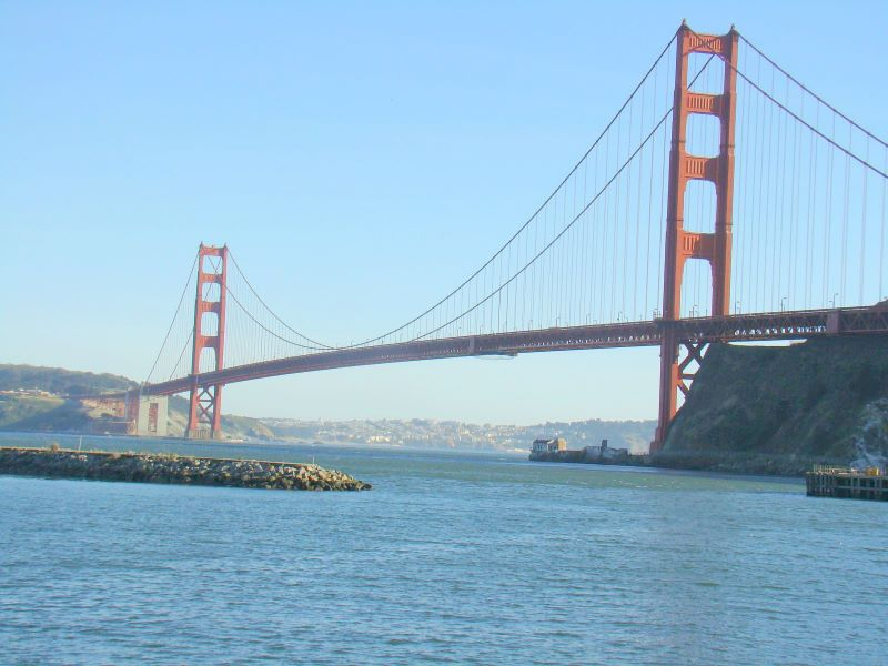 I took this pic while travelling in the motor boat.